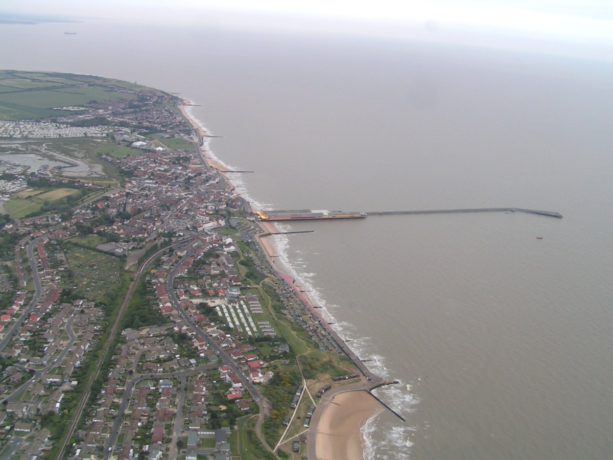 Walton-on-the-Naze sea-front and town center. Photo by sannse, 26 June 2004.